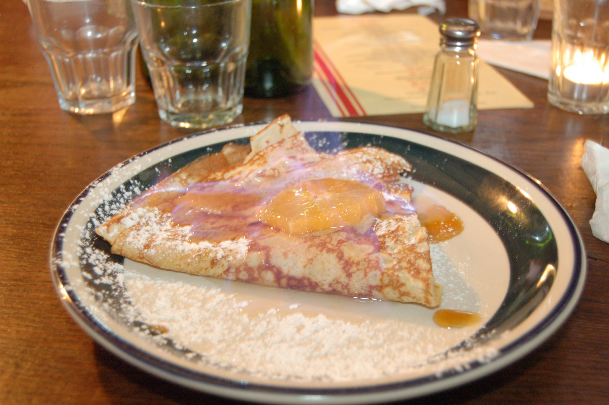 Crêpe Suzette au Citron with visible flame as served by Torchon Crêperie, Auckland